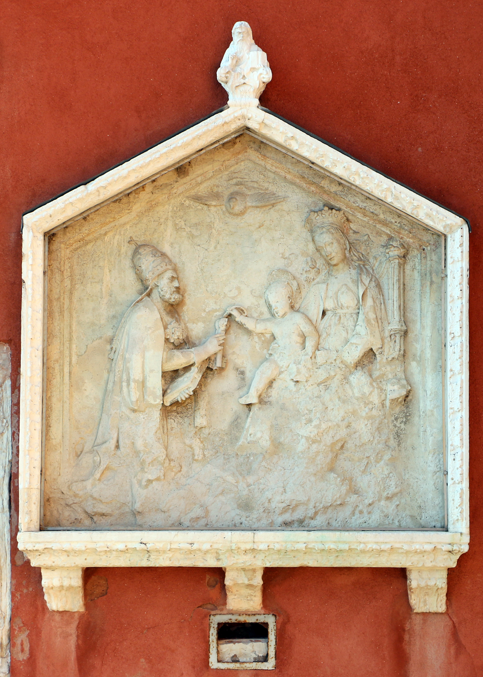 San Pietro di Castello (Venice)